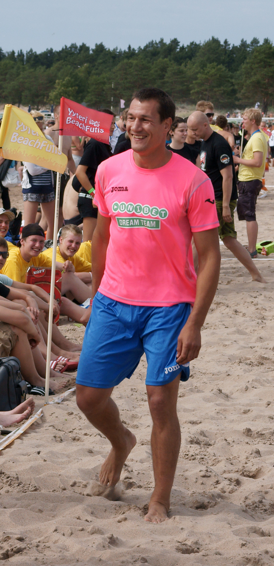 Amin Asikainen, Finnish boxer, playing beach soccer in Yyteri beachfutis.